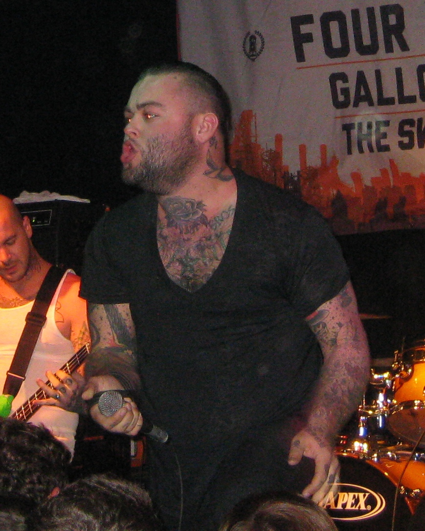 Singer Wade MacNeil of Gallows performing on November 6, 2011 at Soma in San Diego, California as part of The AP Tour Fall 2011.